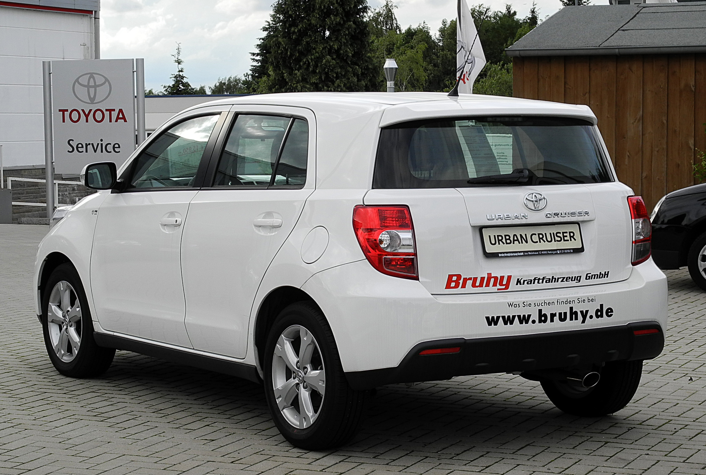 Toyota Urban Cruiser 1.33 Town